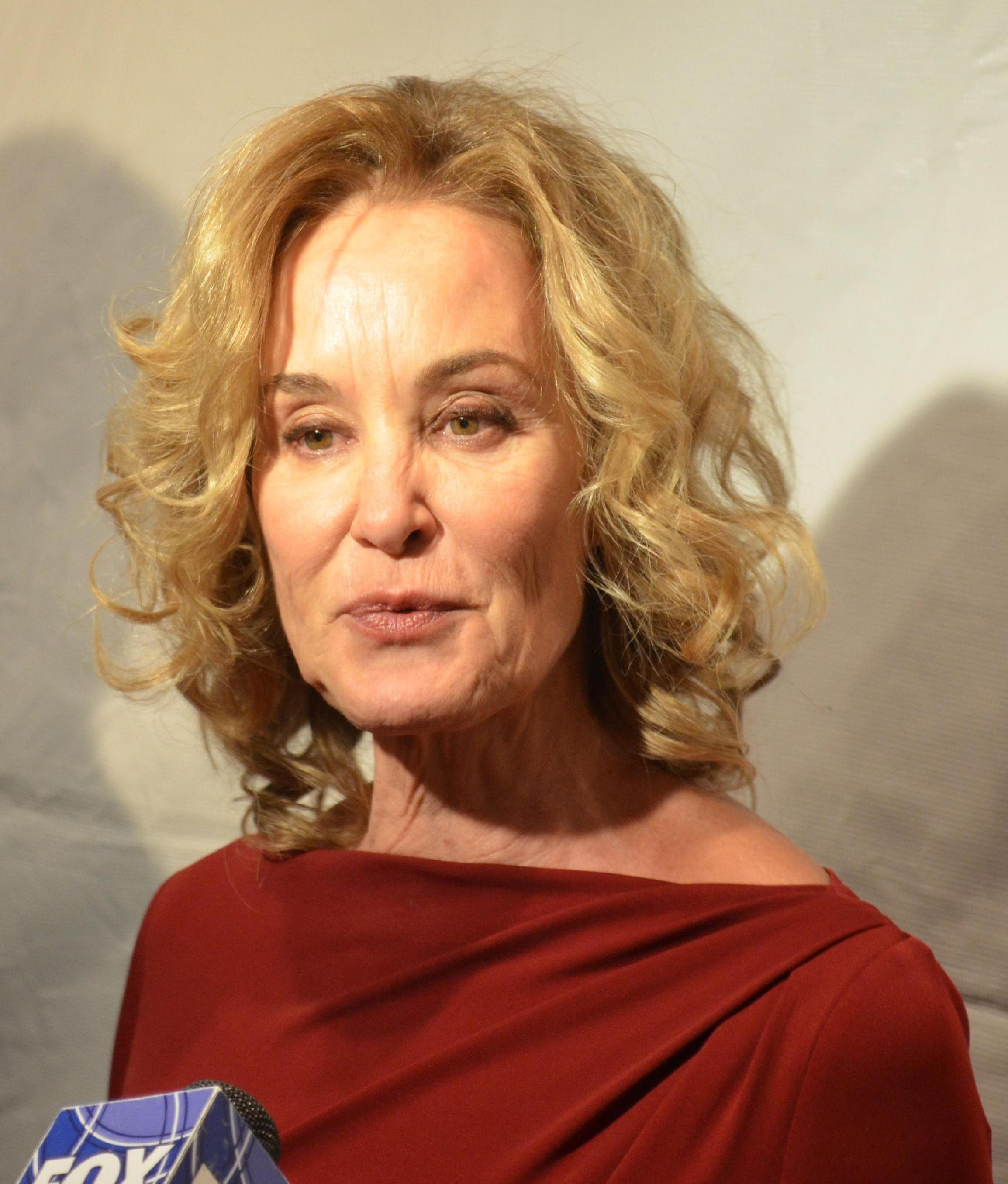 Jessica Lange interviewed by Fox Broadcasting Company at the Paley Center for Media on March 2, 2012.